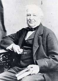 Samuel Lord (1803-1889), an English-born American retail millionaire who founded Lord & Taylor today the oldest luxury department store in the United States.